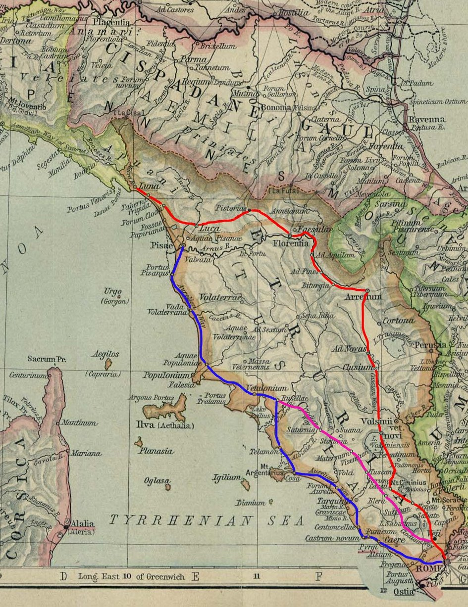 Ancient roman way system leading toward North-West. Tre are highlighted the initial path of the Aurelia way (blue), the Cassia Way (red) and the Closia way (violet)